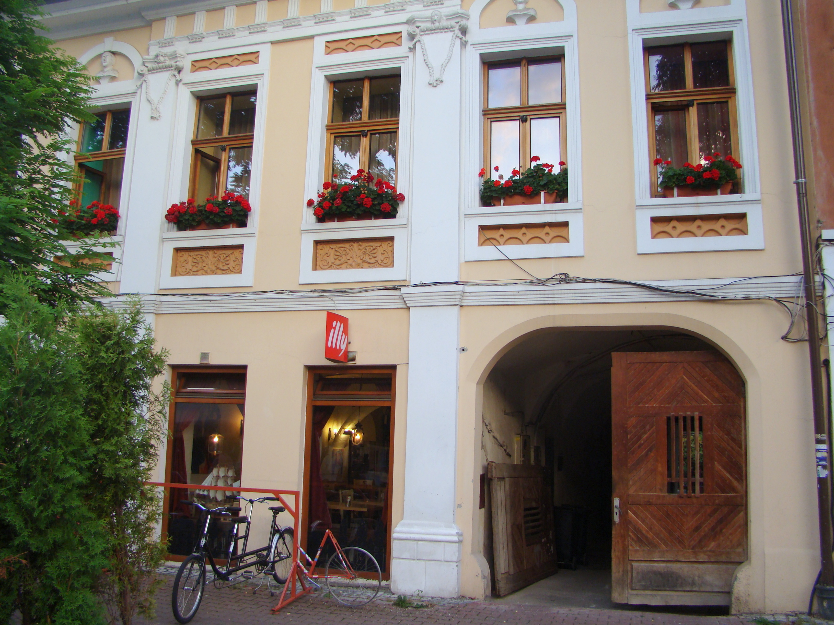 House, historic monument, in Bistrița, Liviu Rebreanu street 6